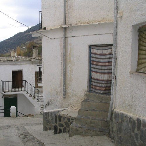 Photo taken by me in Trevélez, Granada, Spain, in November 2005